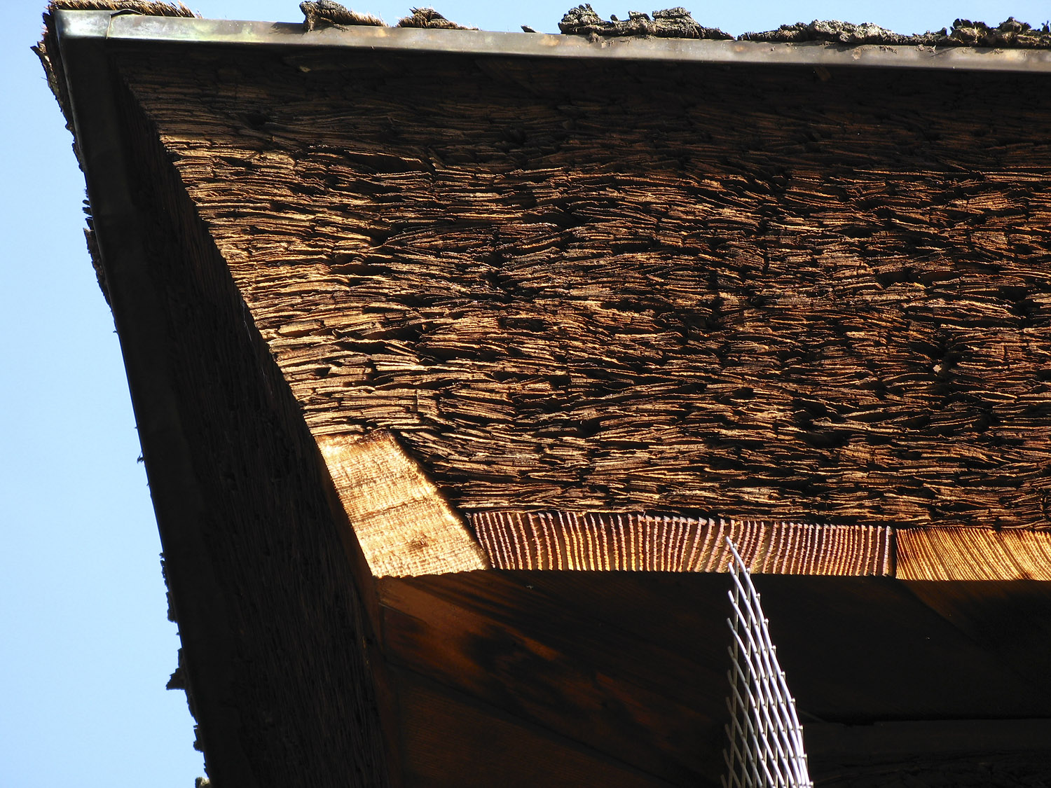 This detail of the roof of the Mieidō at Tō-ji, a Buddhist temple in Kyoto, Japan, shows the hiwada-buki 桧皮葺 construction. The material of the roof is the bark of a tree such as Chamaecyparis obtusa (Japanese cypress) or sugi. I took this photo.